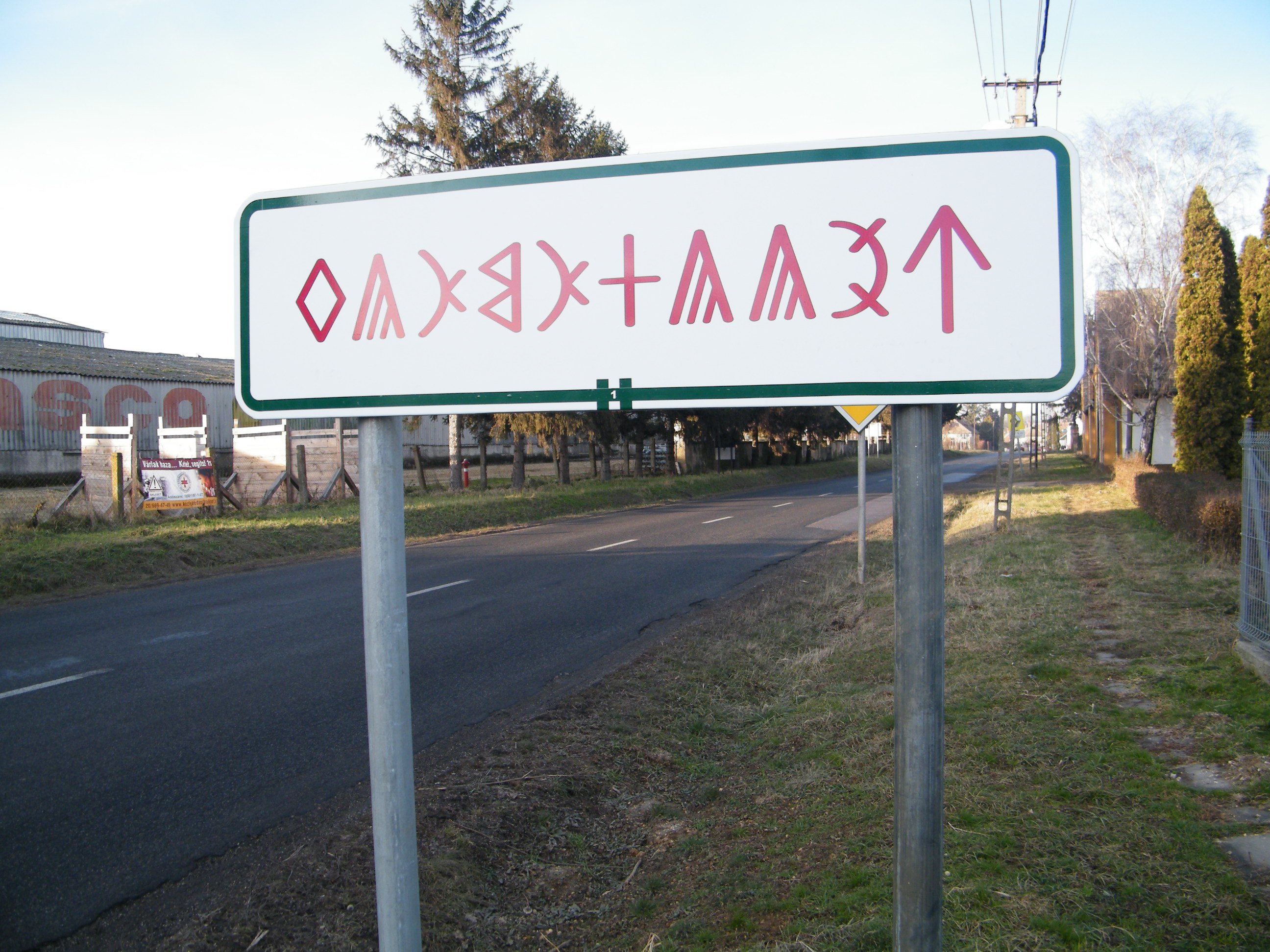 Official city limit sign using traditional Hungarian script in Celldömölk (Hungary).